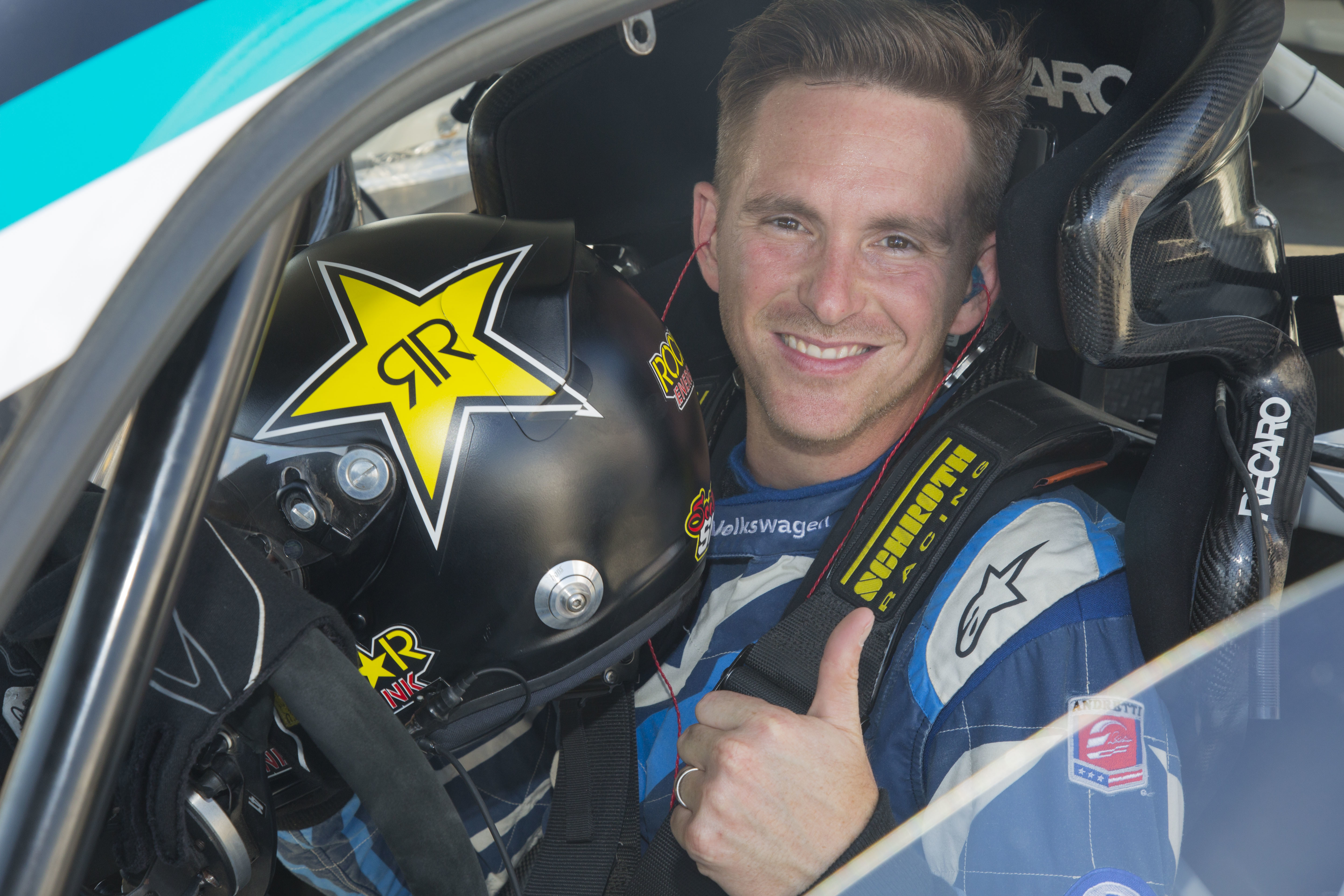 Scott Speed with racing team Volkswagen Aandretti Rallycross, gives a thumbs up, Marine Corps Air Station New River (MCAS), N.C., June 30, 2016. The world’s best rallycross drivers will compete at MCAS New River for the second season in a row in a doubleheader July 2-3, 2016, featuring an all-new course layout, bringing the track even closer to the fans. Unit: Marine Corps Installations East Combat Camera (MCB CAMP LEJEUNE & MCAS NEW RIVER) DVIDS Tags: USMC; COMCAM; Redbull; GRC; Rallycross